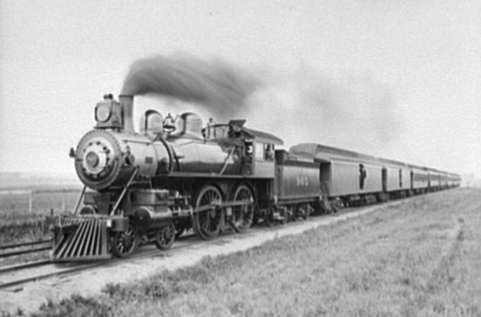 Photo of the Chicago and North Western's Pacific Express, which was a companion train to their Overland Limited. While the Overland traveled between Chicago and Los Angeles and San Francisco, the Express offered connections for Portland, Oregon.